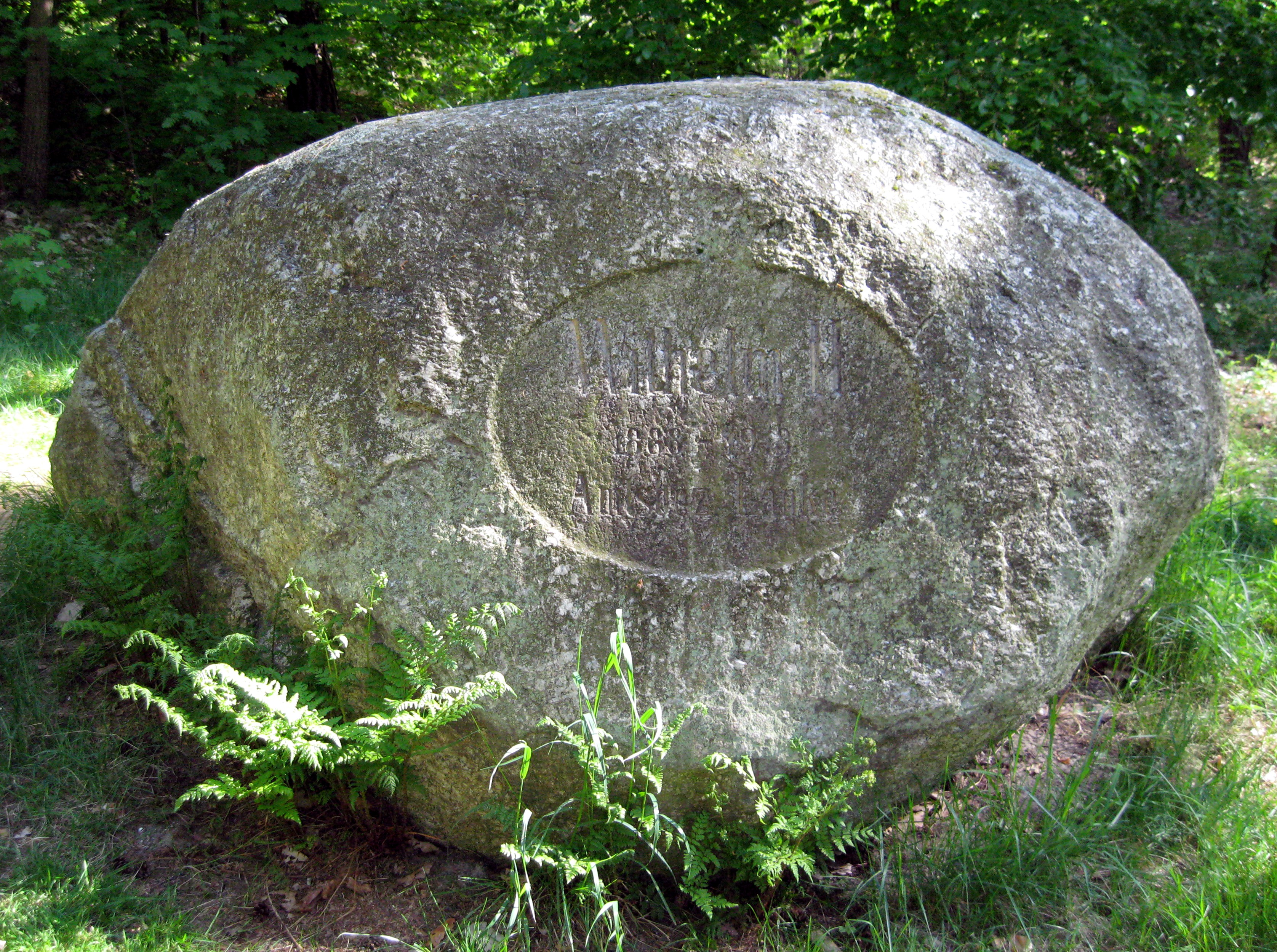 Prenden (Wandlitz) in Brandenburg, Germany